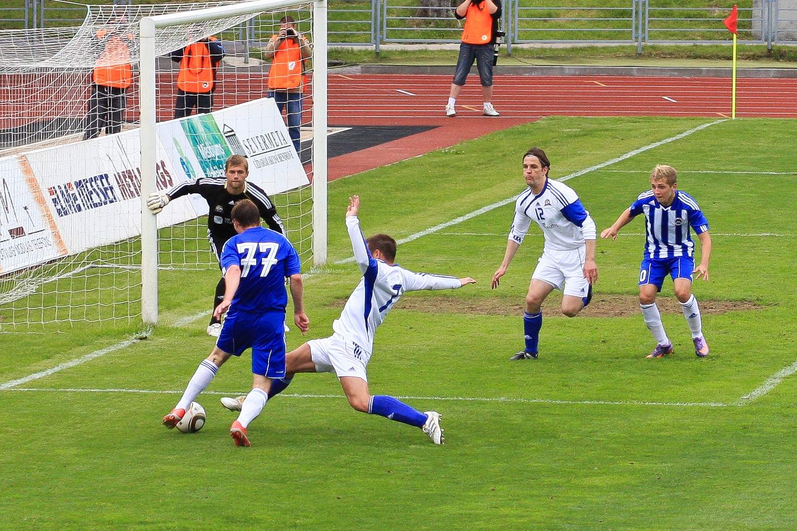 Virsliga match between FK Metalurgs Liepaja (blue) and FC Tranzit (white)